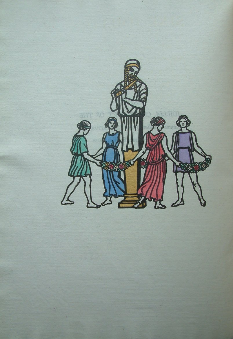 The frontispiece of Sixe Idillia with a wood engraving by Vivien Gribble